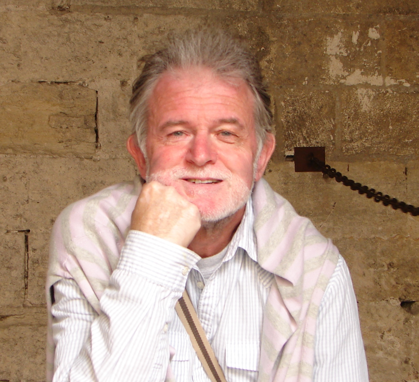 Veljko Despot, Croatian, record company executive and journalist